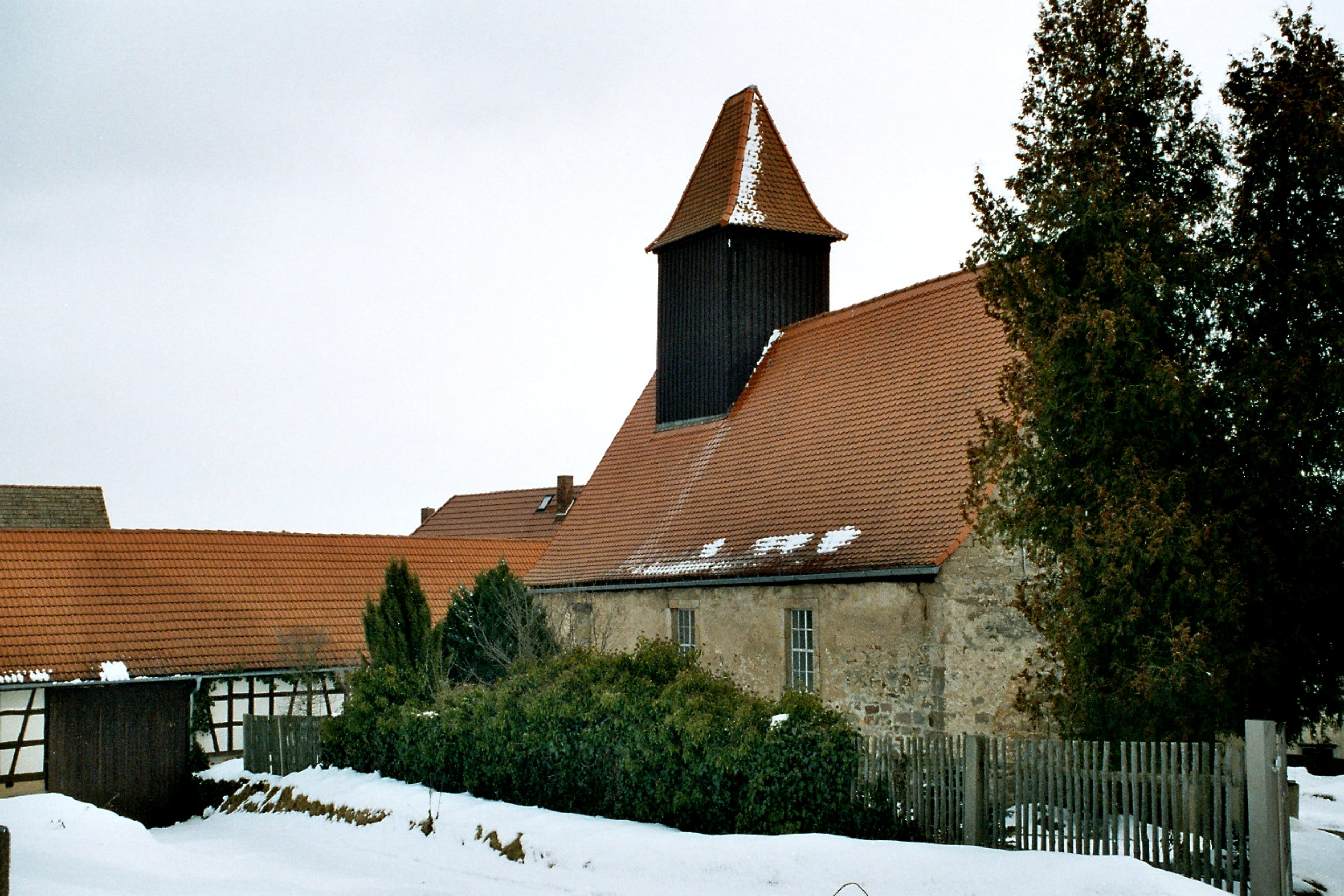 The village church